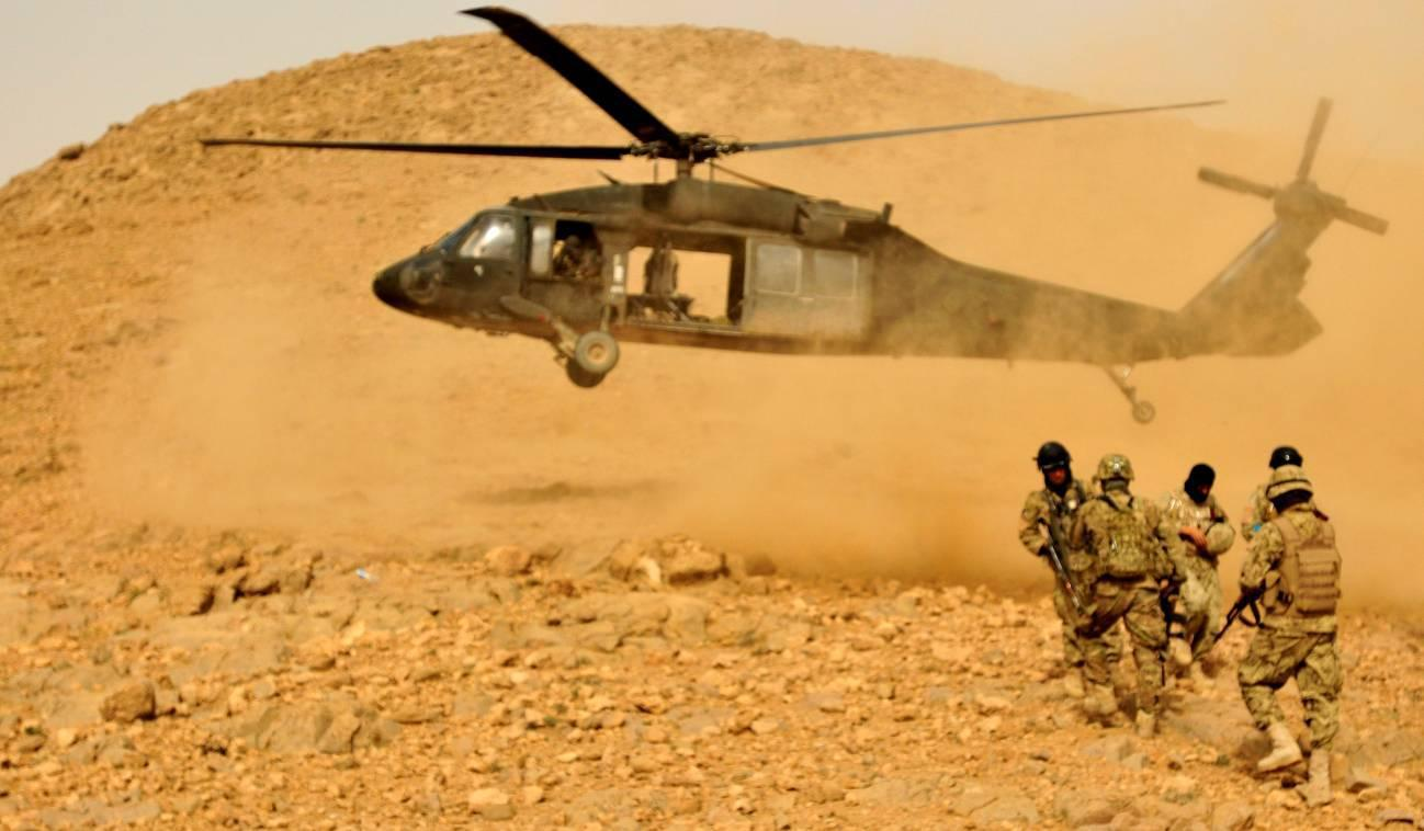 Pathfinders assigned to F Company, 2nd Battalion, 25th Aviation Regiment, 25th Combat Aviation Brigade, and members of 2nd Afghan National Civil Order Patrol Special Weapons And Tactics team get dusted as a UH-60 Black Hawk helicopter lands on the side of a hill during a search mission as part of Operation Pranoo Verbena which is designed to disrupt Taliban operations in Kandahar Province, Afghanistan, March 16.